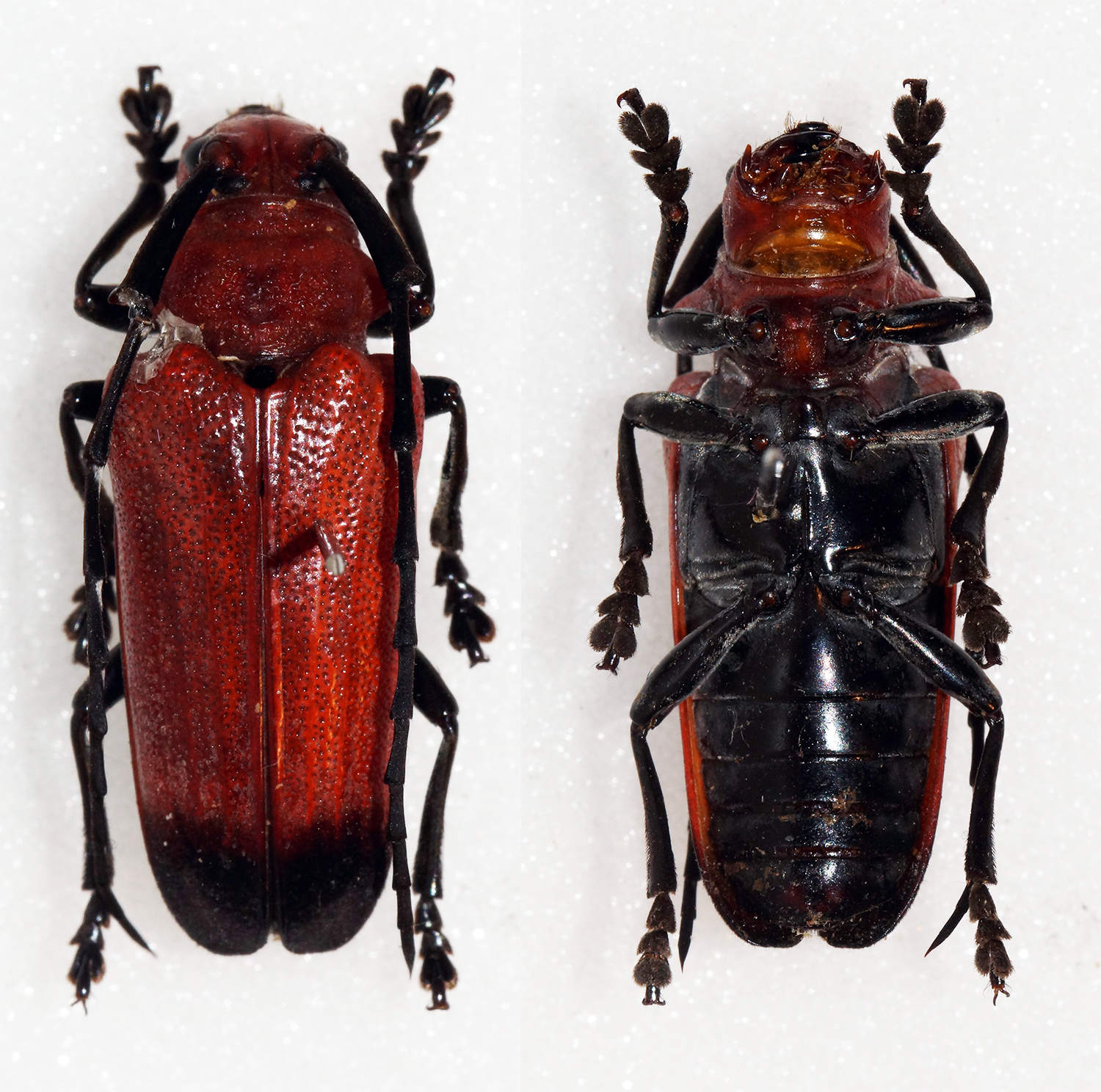 Ritsema,1890 Sex: ? Data: 02-2011 - Kampung Raja - Cameron Highlands - Malaysia Size: 22.5mm